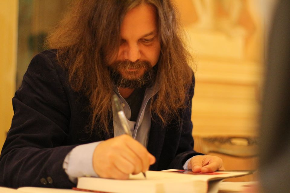 Italian author Matteo Strukul signing an autograph in 2019